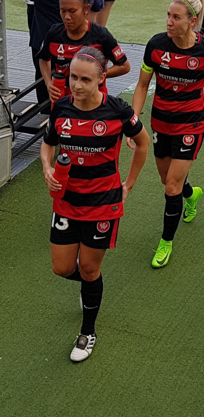 Olivia Price at half time vs Melbourne City 01-01-2018